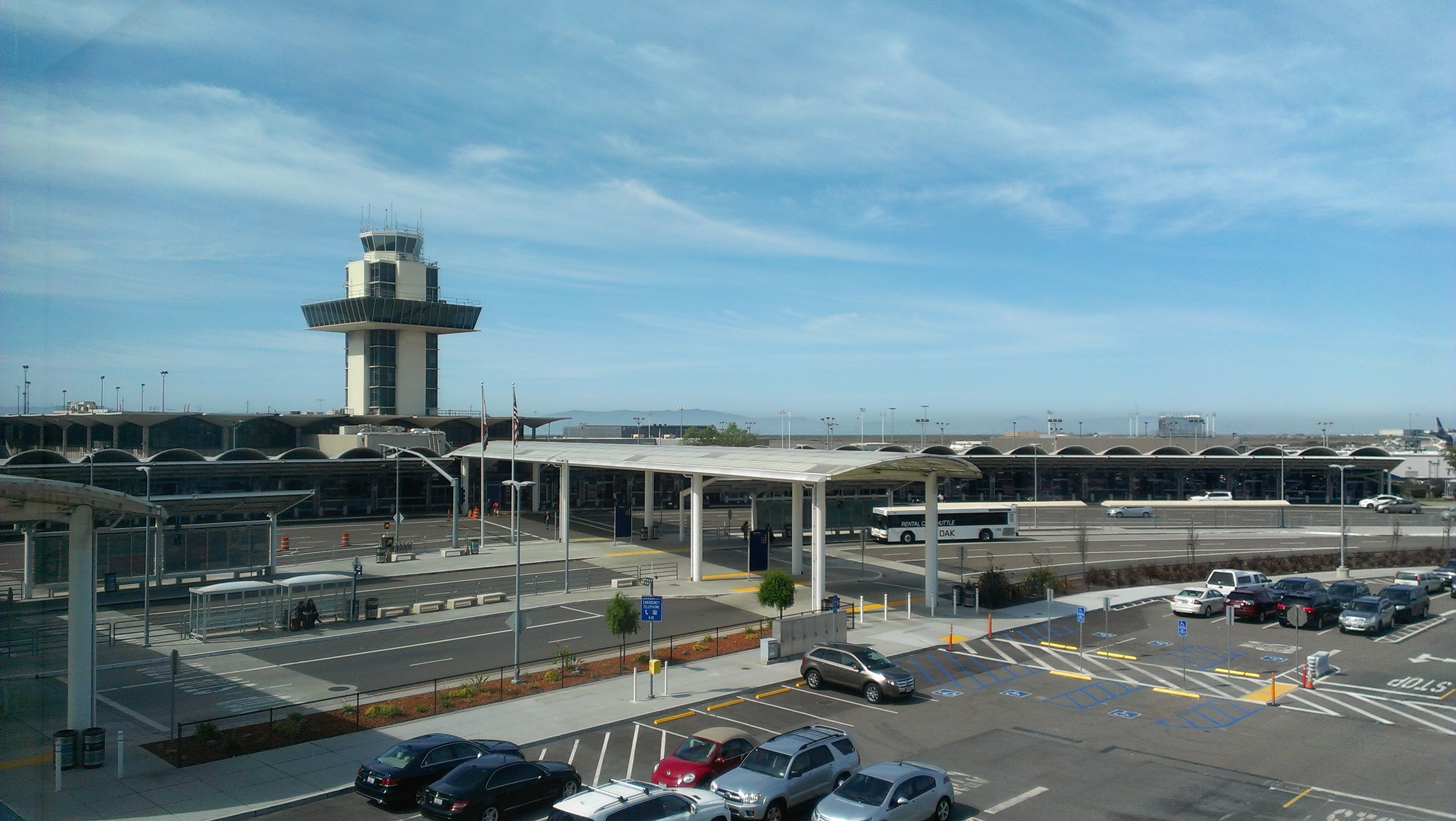 viewed from BART platform